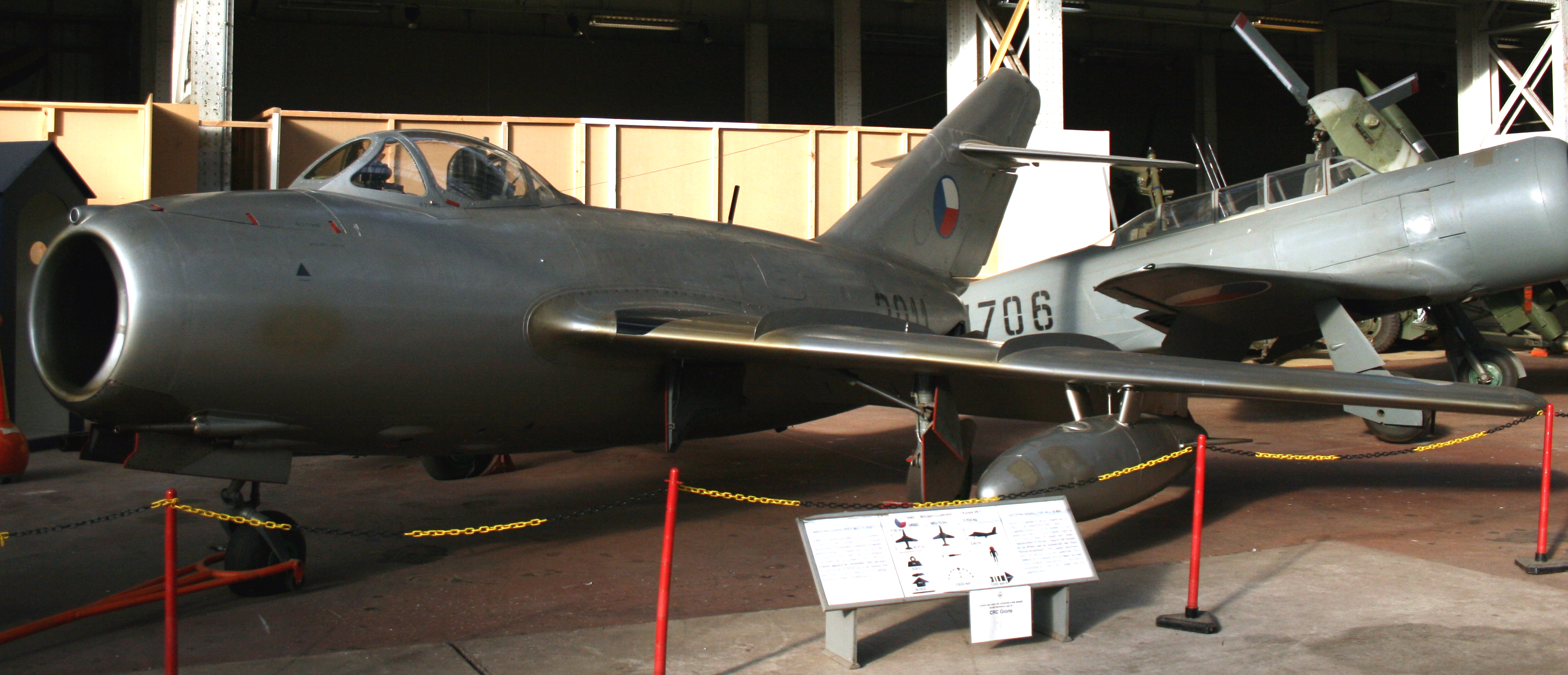 Mikoyan-Gurevich MiG-15bis (or Czech-made S.103)